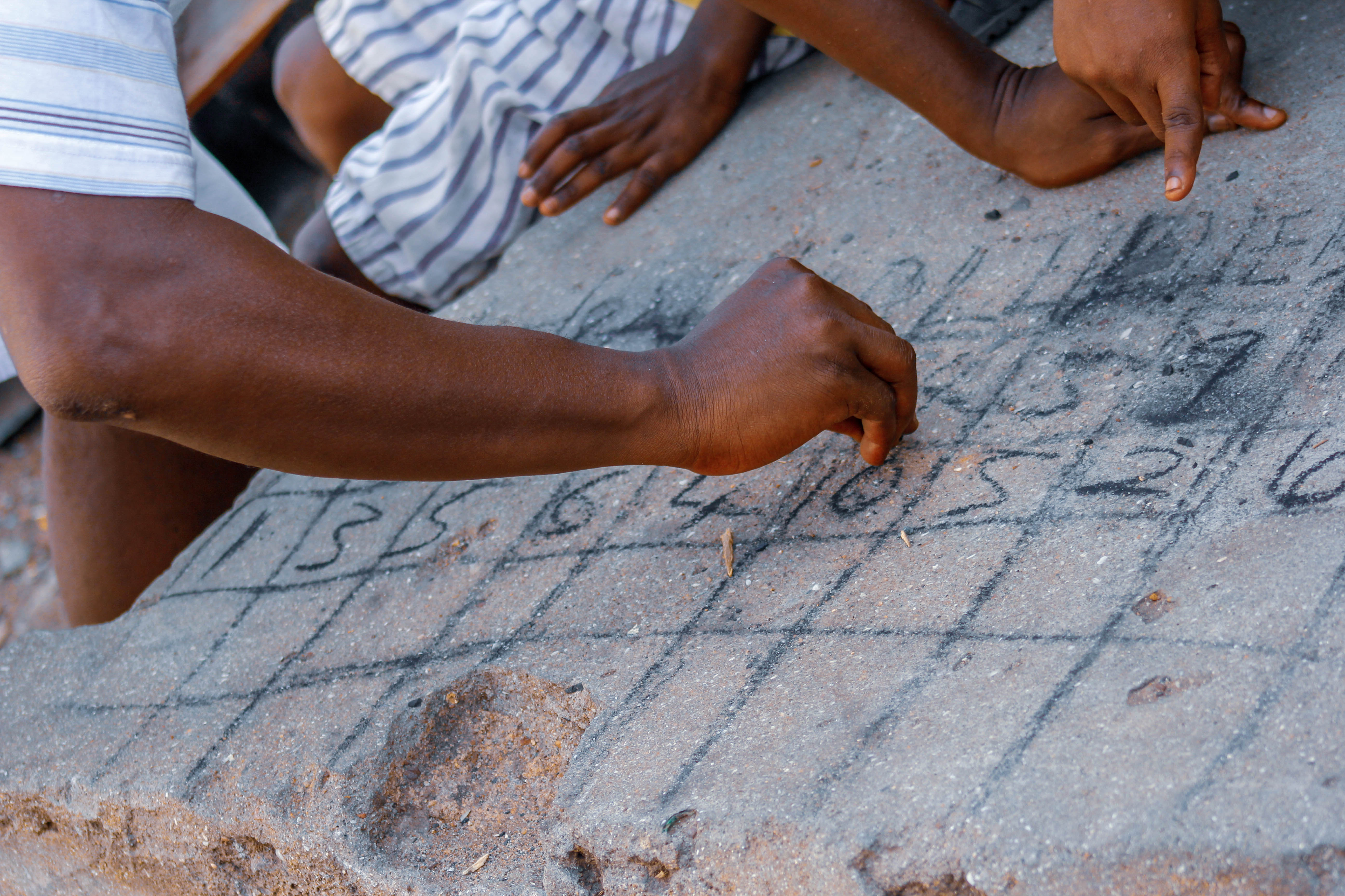 A Ghanaian game similar to hide-and-seek The Pilolo game is played by two or more children. The higher the number, the increase in excitement and zeal to win. An object like a stick is mostly used and the number of sticks to use is dependent on the number of children. A non-participant hides the sticks while the participants have either closed their eyes or not in the same location. The non-participant then shout out "pi-lo-lo", the participants then run from their hideout to search for the item. A finish point is indicated where they must send the stick to be a winner. One needs to be smart, observant and skilful to detect where the item has been hidden. The first person that sees it secretly runs to the finish point before alerting the others after a hard time trying. It is then recorded as they reach the finish point. There is an excitement after being the winner. It can be played multiple times